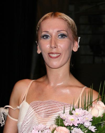 Ballerina, People's Artist of Russia Oxana Kuzmenko